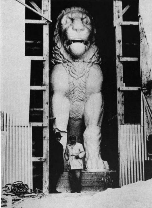 Plaster model of the lion of Amphipolis used to model the missing pieces, 1937. Original title: Fig. 9: Plaster model of lion. The Sculptor Mr. Panagiotakes, in Center and Mr. Macumber of the Monks-Ulen Company on the Left, 1937 (see also page